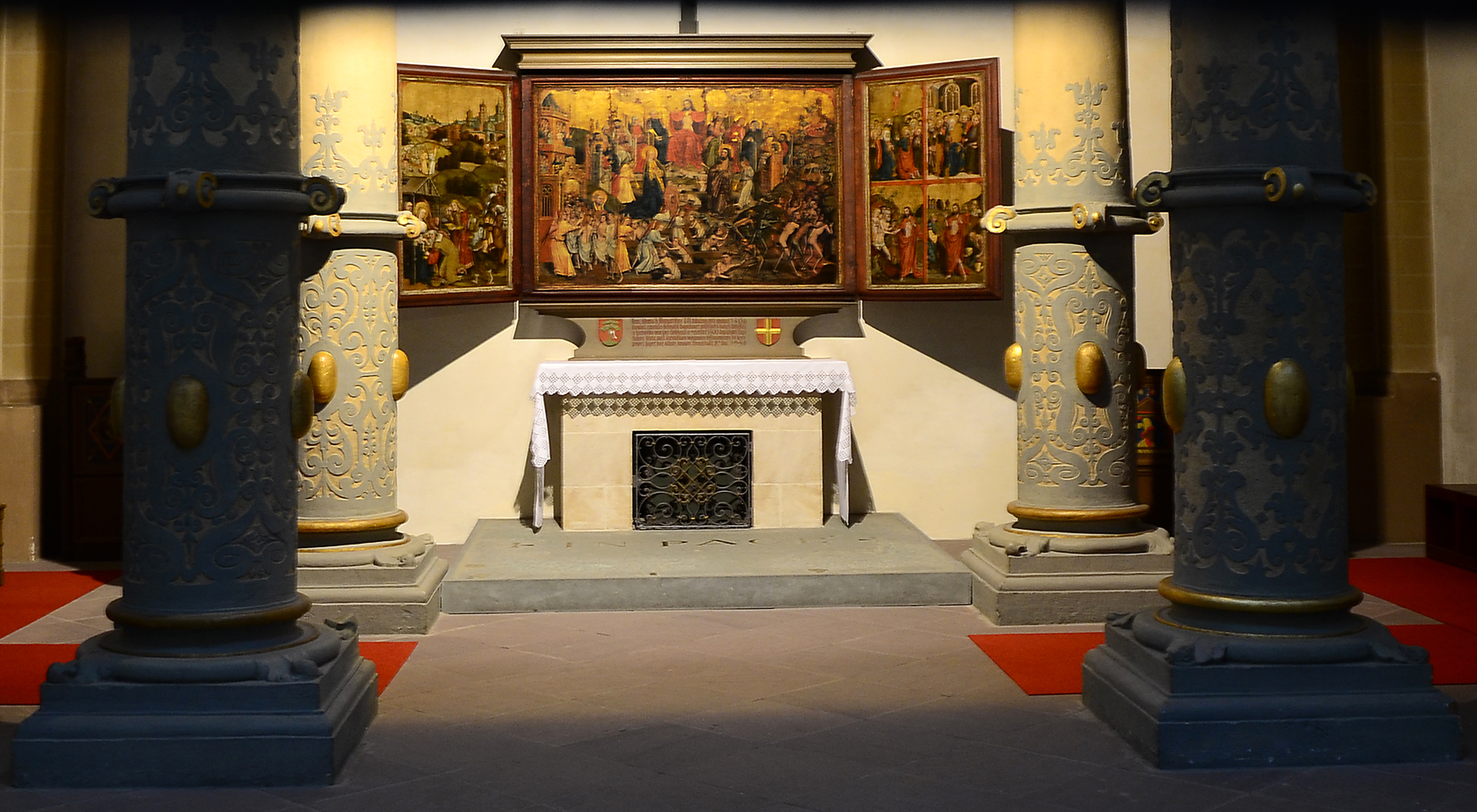 Paderborn Cathedral, Margaret altar, an altar with representations of the Last Judgment in 1500 by Gert van Loon, Paderborn, North Rhine Westphalia, GermanyThis is a photograph of an architectural monument., no. 3